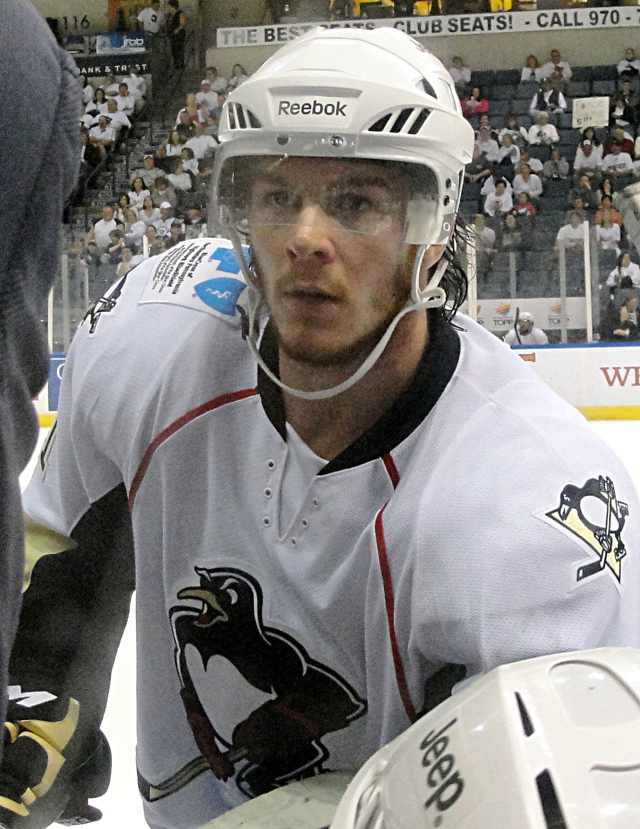 Wilkes-Barre/Scranton Penguins center Zach Sill during a AHL Calder Cup Playoffs second round game against the St. John's IceCaps, May 5, 2012 at Mohegan Sun Arena at Casey Plaze in Wilkes-Barre, PA.